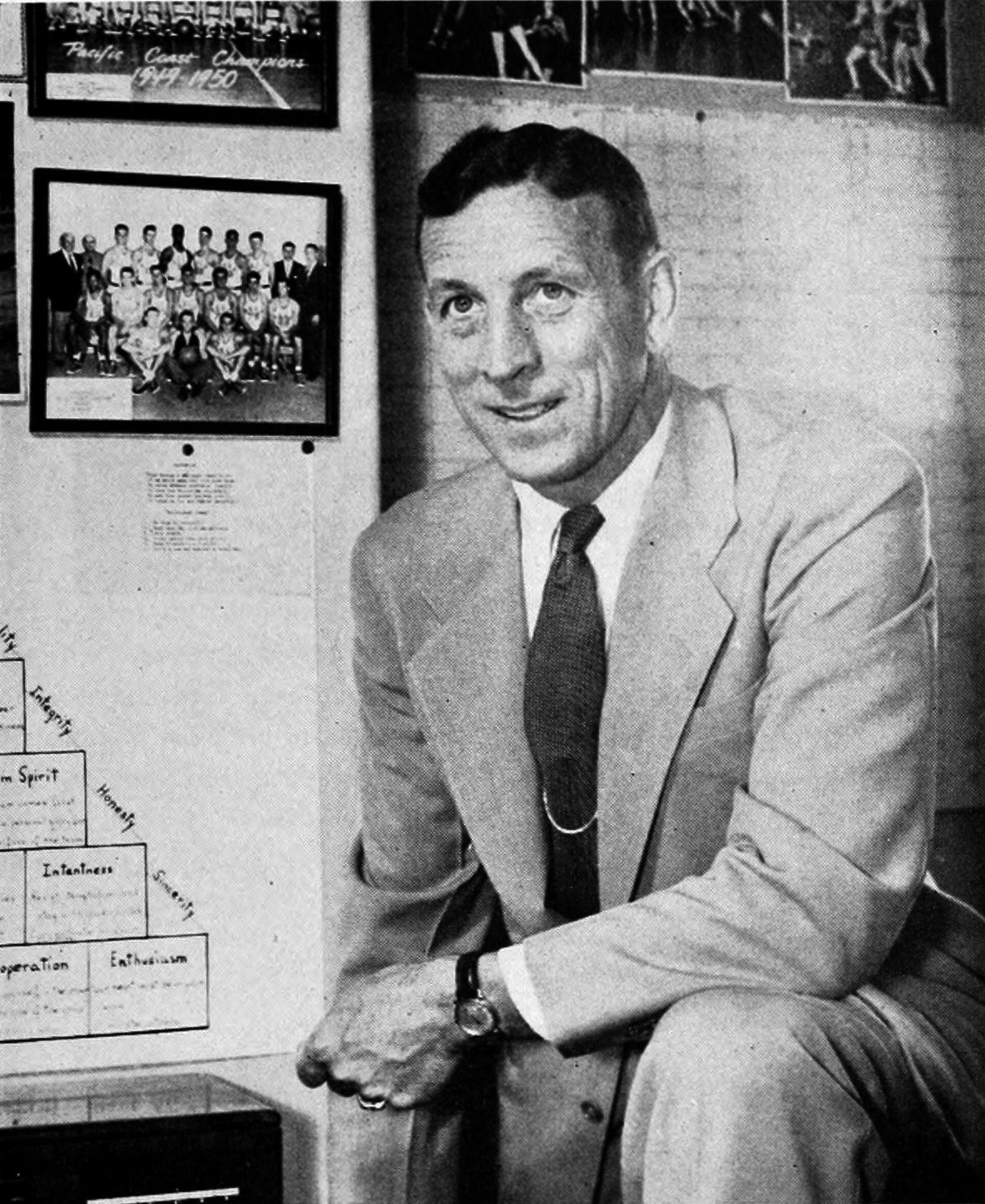 UCLA basketball head coach John Wooden